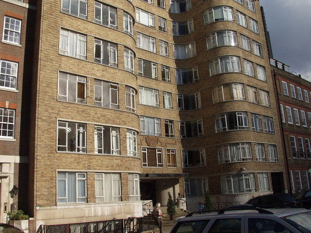 Poirot's Flat 30s flats on the east side of Charterhouse Square which was used as a location for Poirot's flat in the TV series